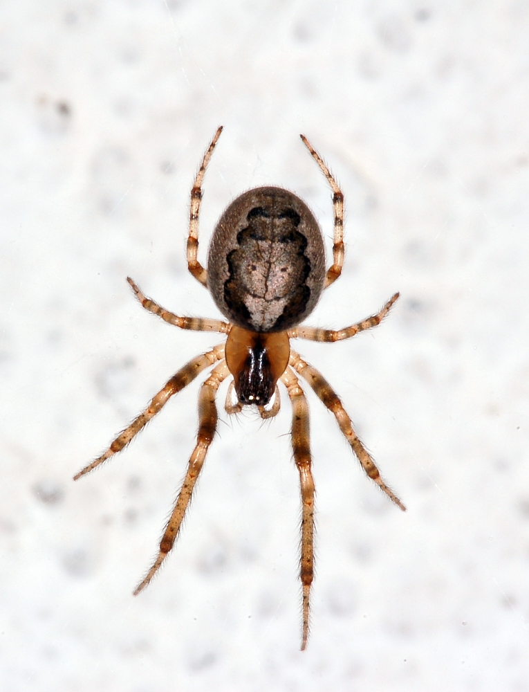 Zygiella x-notata, Nied, Frankfurt/Main, Germany